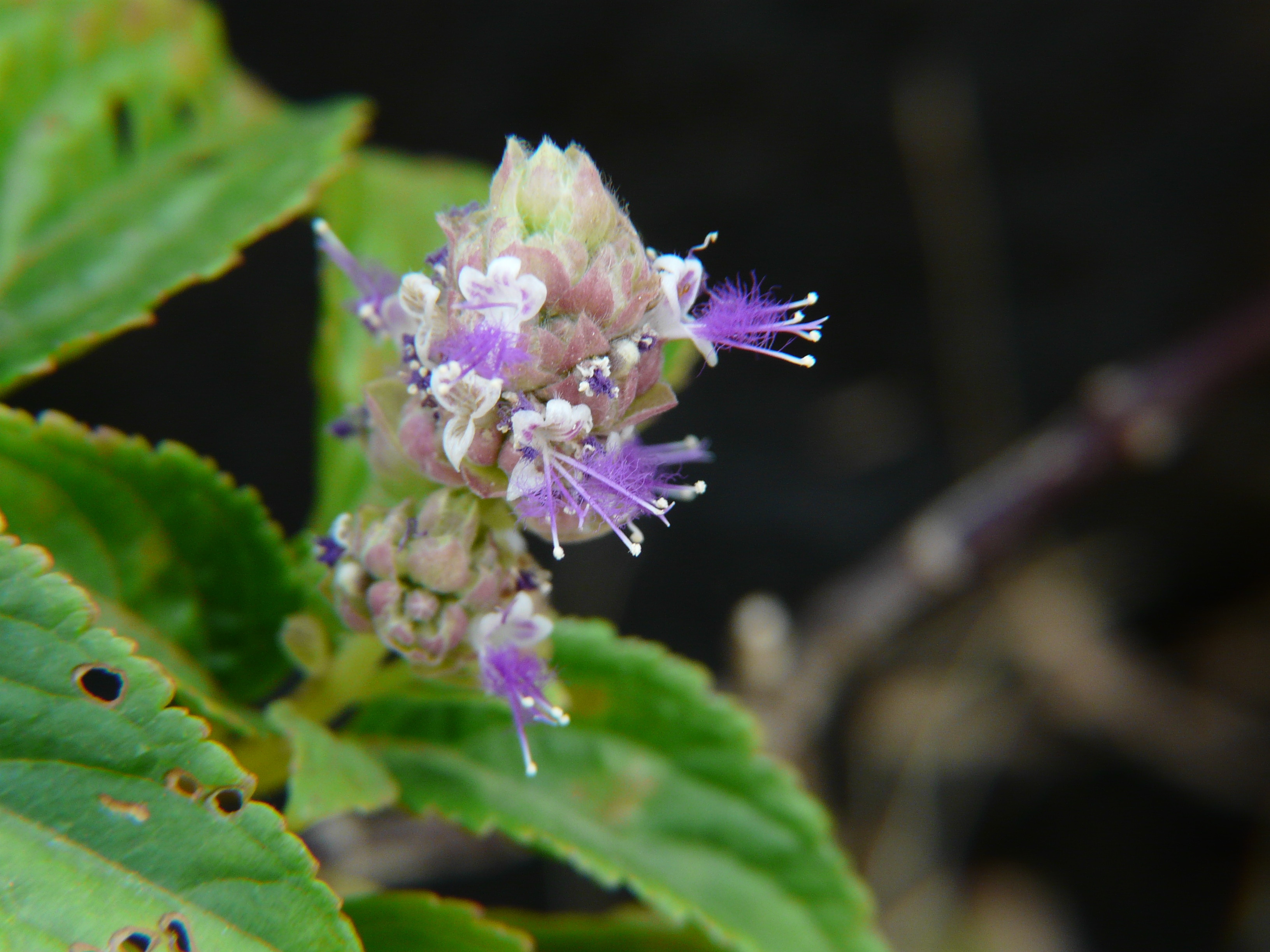 Lamiaceae (mint family) » Pogostemon benghalensis po-go-STEM-on -- from the Greek pogon (beard) and stemon (thread, stamen) ben-gal-EN-sis -- of or from Bengal (India) commonly known as: Bengal pogostemon, cockspur patchouli • Assamese: sukloti • Bengali: জূঈ লতা jui-lata • Hindi: ईश्वर जटा ishwar jata • Manipuri: লমগী থোঈদিঙ lamgi thoiding • Marathi: पांगळी pangli • Nepalese: रुधिलो rudhilo • Oriya: dumobadotoko • Telugu: పెద్ద తులసి pedda tulasi Native of: India, Bangladesh, Nepal, Sri Lanka, Myanmar, n Thailand References: Flowers of India • World Agroforestry Centre • NPGS / GRIN • ENVIS - FRLHT